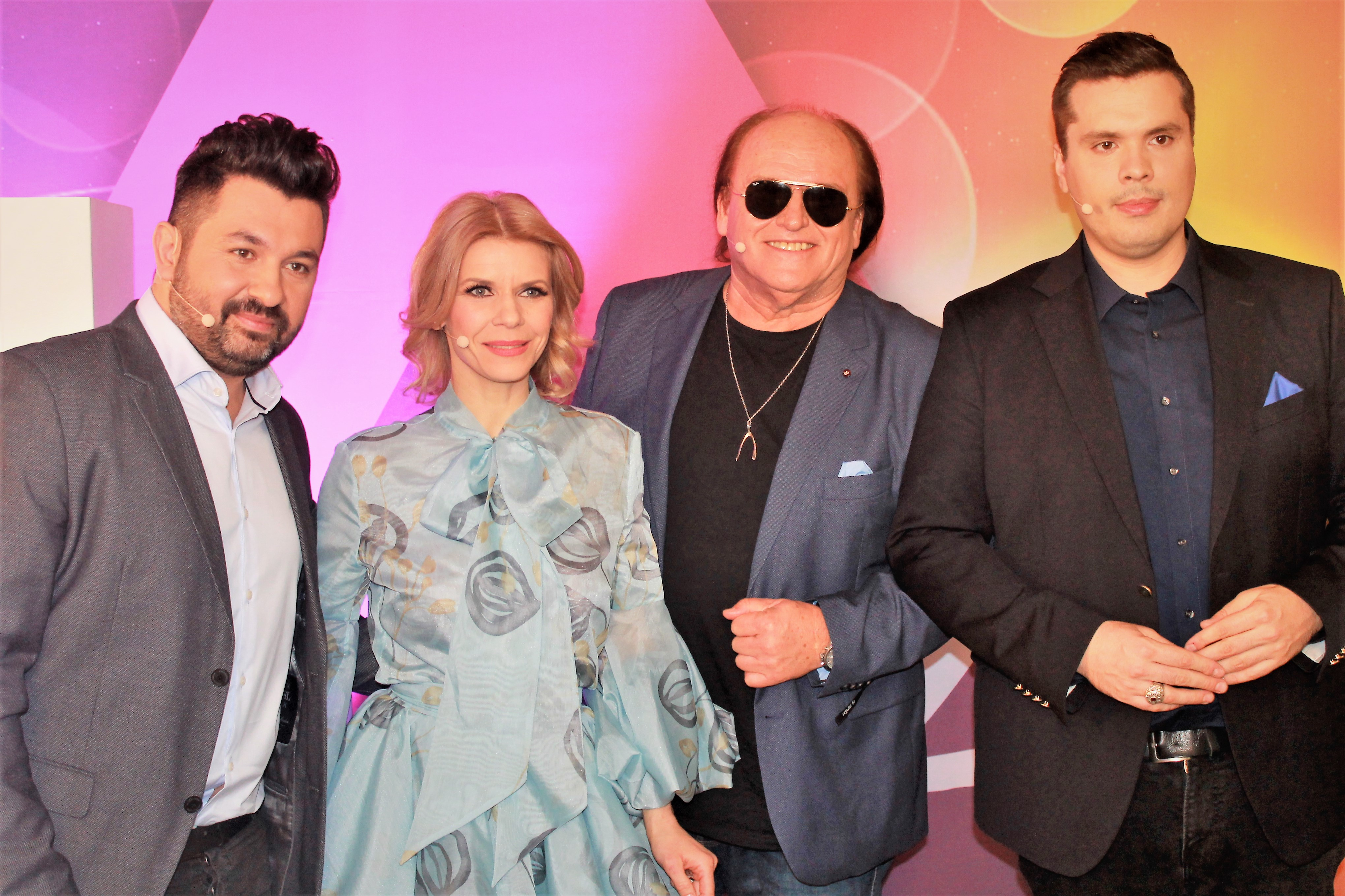 The jury of A Dal 2018 (from left to right: Misi Mező, Judit Schell, Károly Frenreisz, Miklós Both)